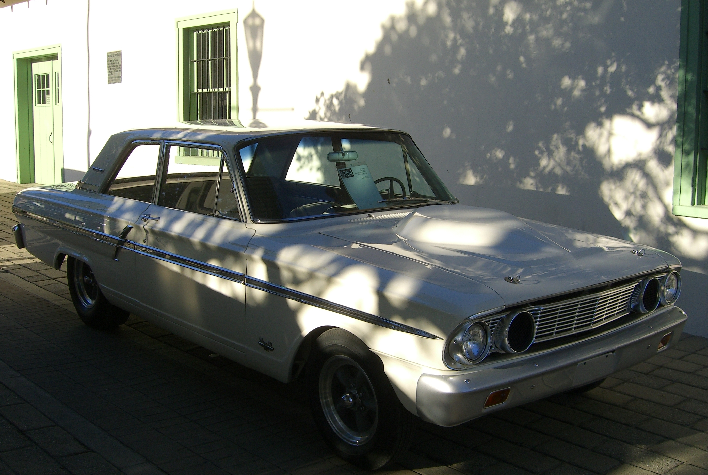 Road-legal drag racer: 427 V8 in lightened midsize Ford Fairlane body powered stock 1964 Ford Thunderbolt muscle car to 11.76-second quarter mile.